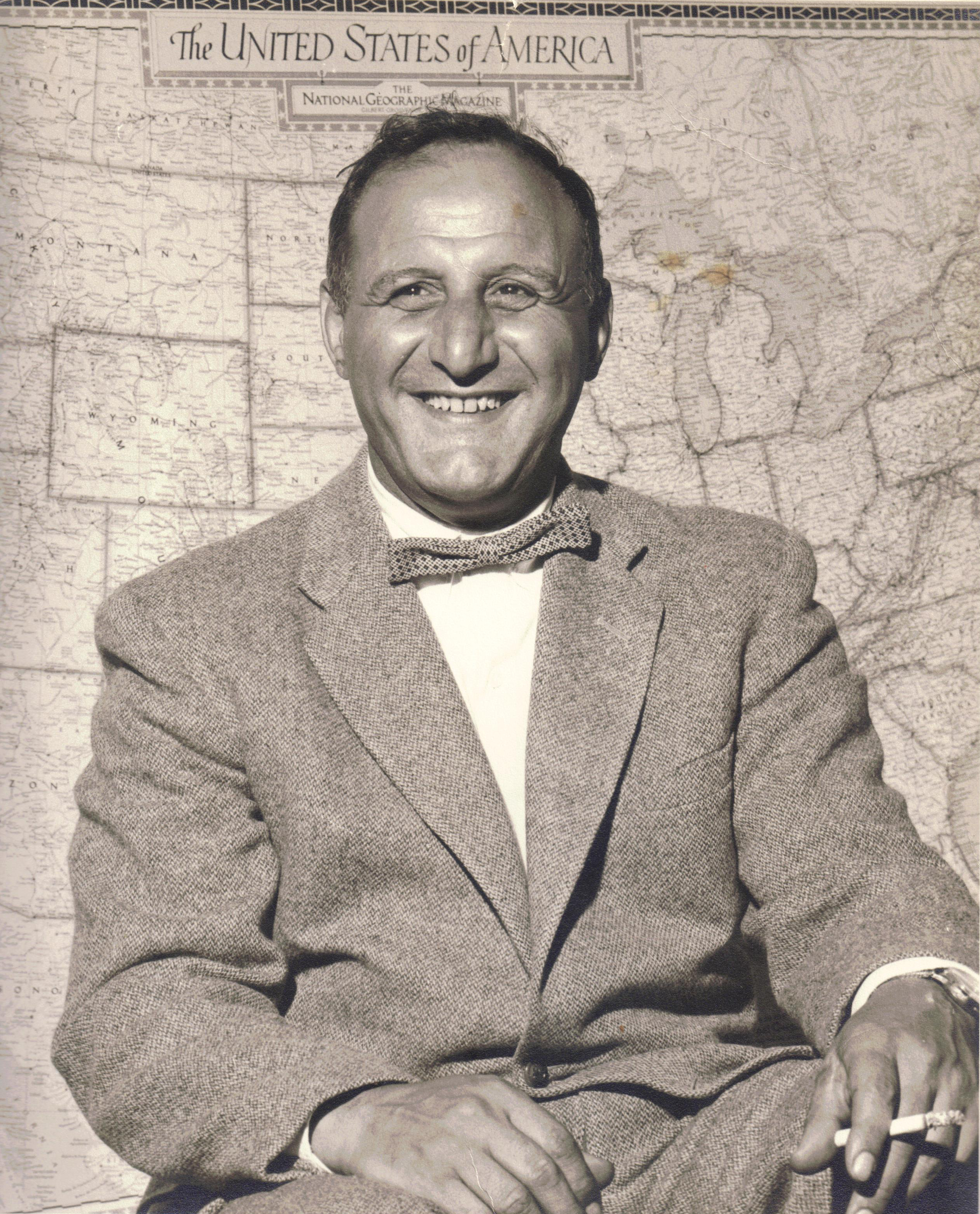 William Lewis Uanna portrait from 1957